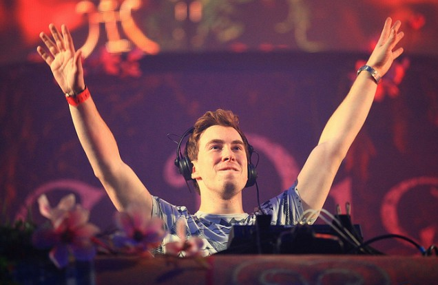 Hardwell as promotion for the DJ Mag 2013